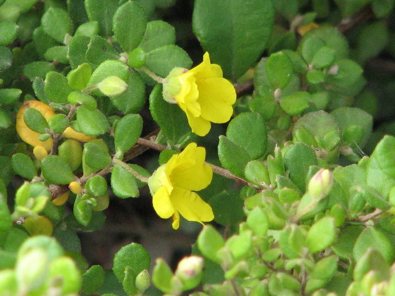 Hibbertia truncata (cultivated labelled) Royal Botanic Gardens Cranboune, Victoria, Australia